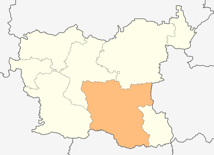 Map of Troyan municipality, Lovech Province